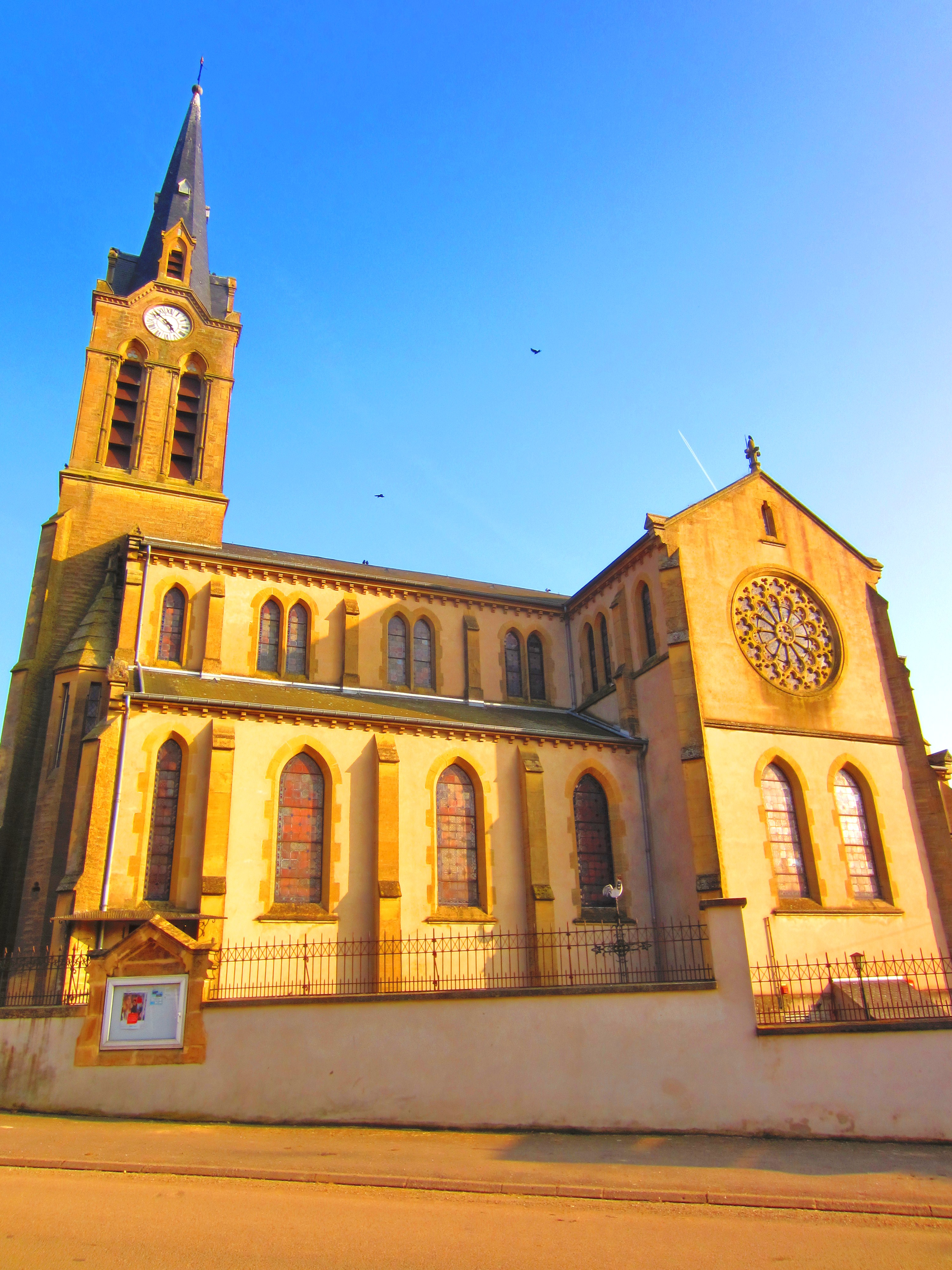 Bechy church